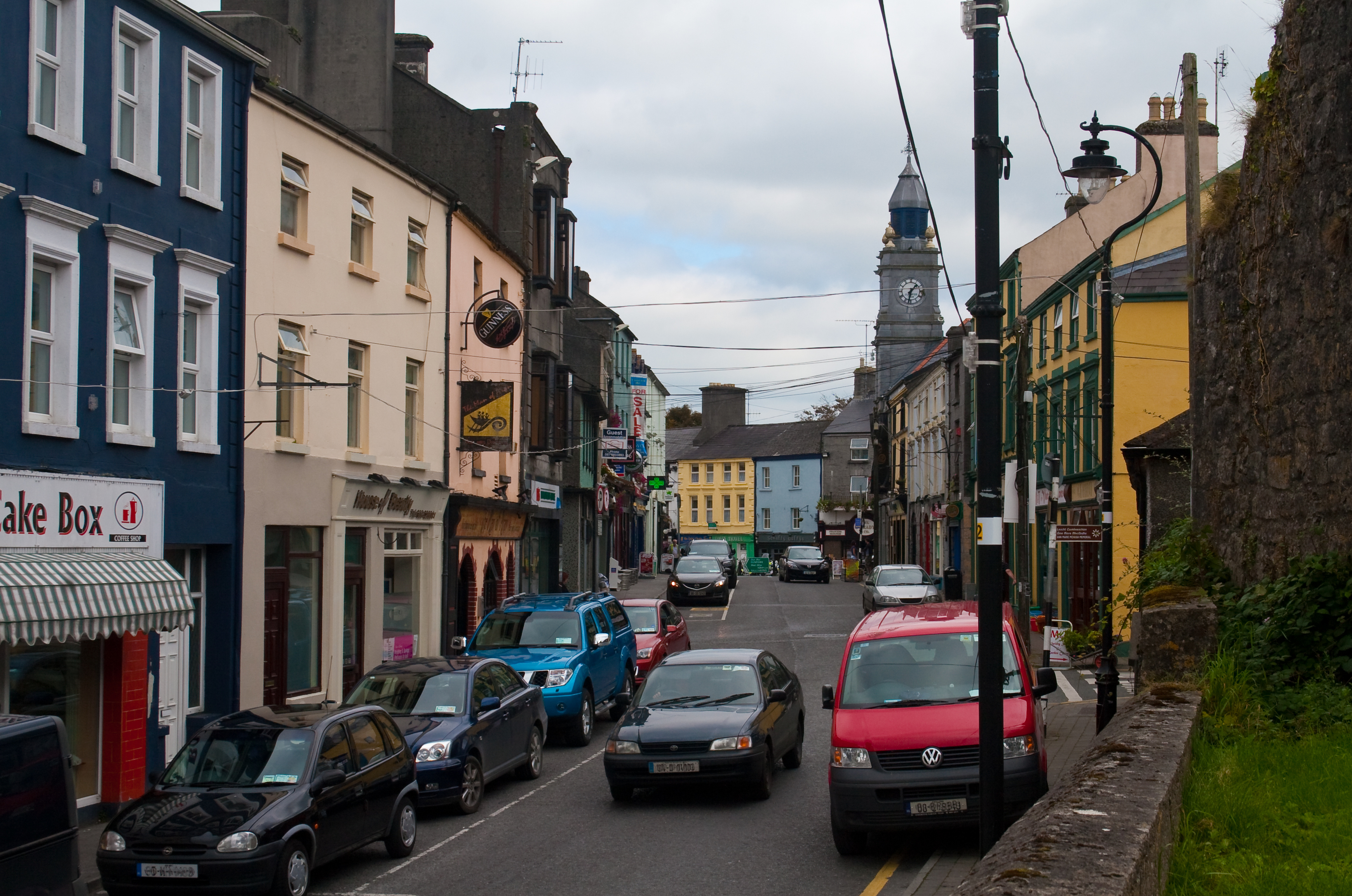 Tuam, County Galway, Ireland: View of High Street, looking east. This photograph has been taken from the site of Teampall Jarlath. The High Street in Tuam is the west-most section of the N83.